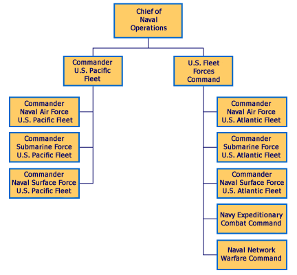 Organizational chart of U.S. Navy type commands.